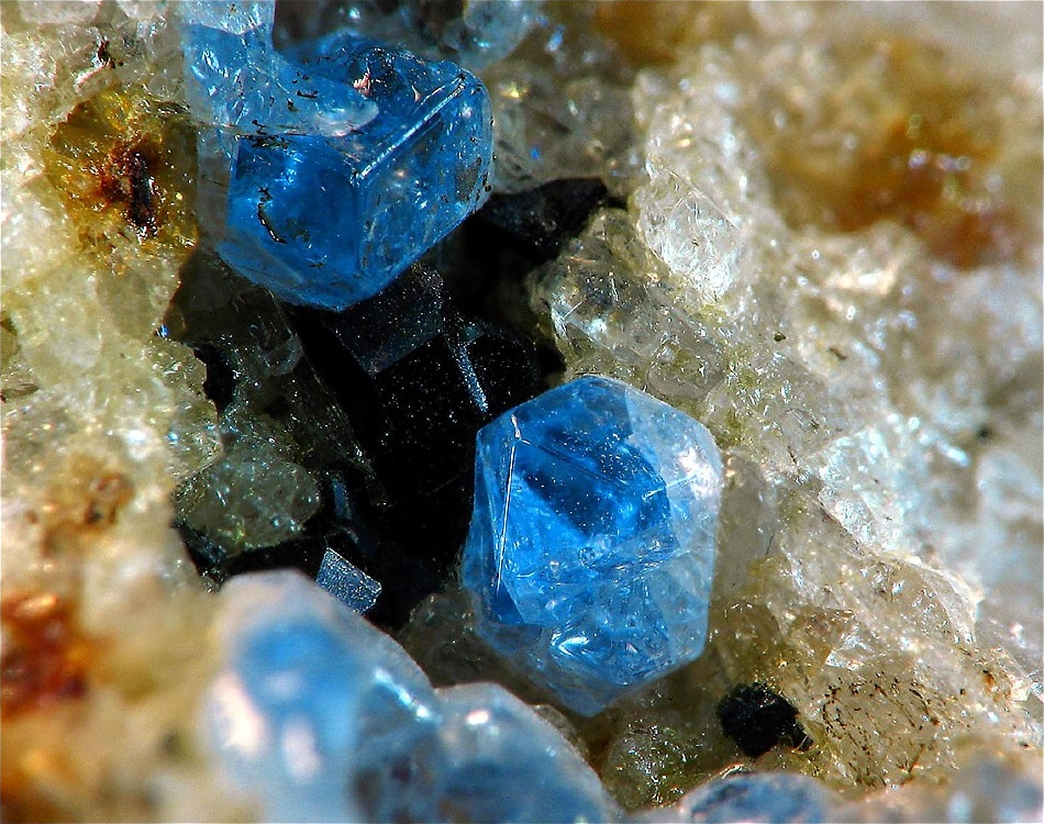 Haüyne (crystal size 1mm) Locality: In den Dellen quarries, Niedermendig, Mendig, Laach lake volcanic complex, Eifel Mts, Rhineland-Palatinate, Germany